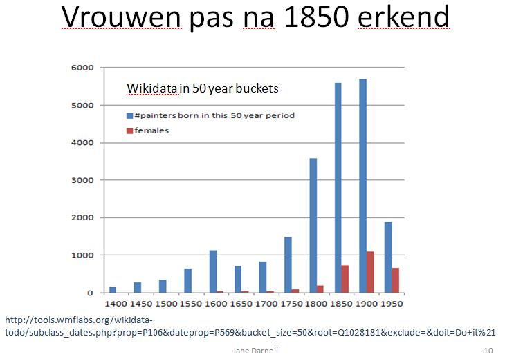 Slide #10 used in panel discussion for "Gendergap on Wikipedia" 1-nov-14 at WCN 2014